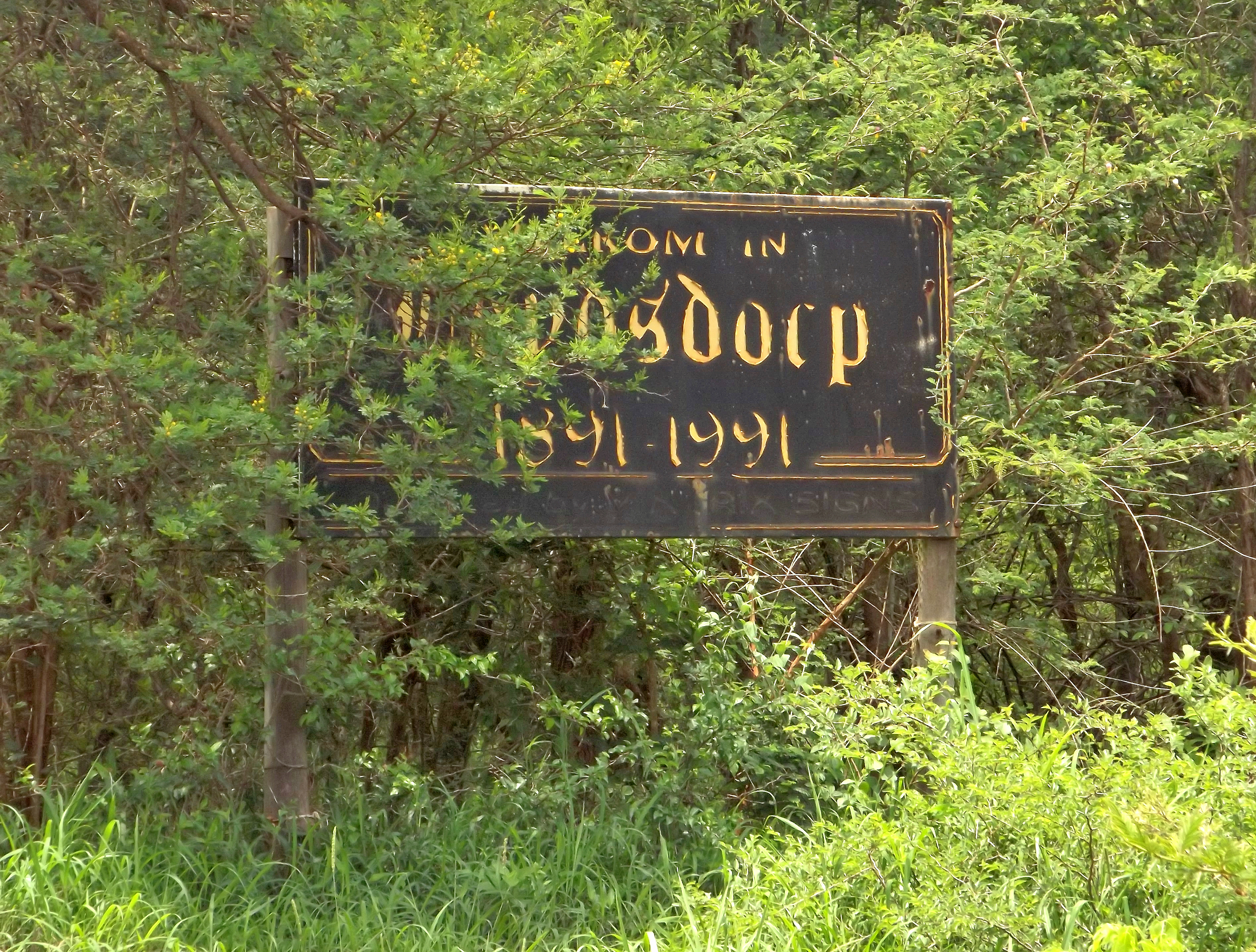 2013: Old signboard of Leydsdorp, a former gold rush town situated in the Limpopo province of South Africa.